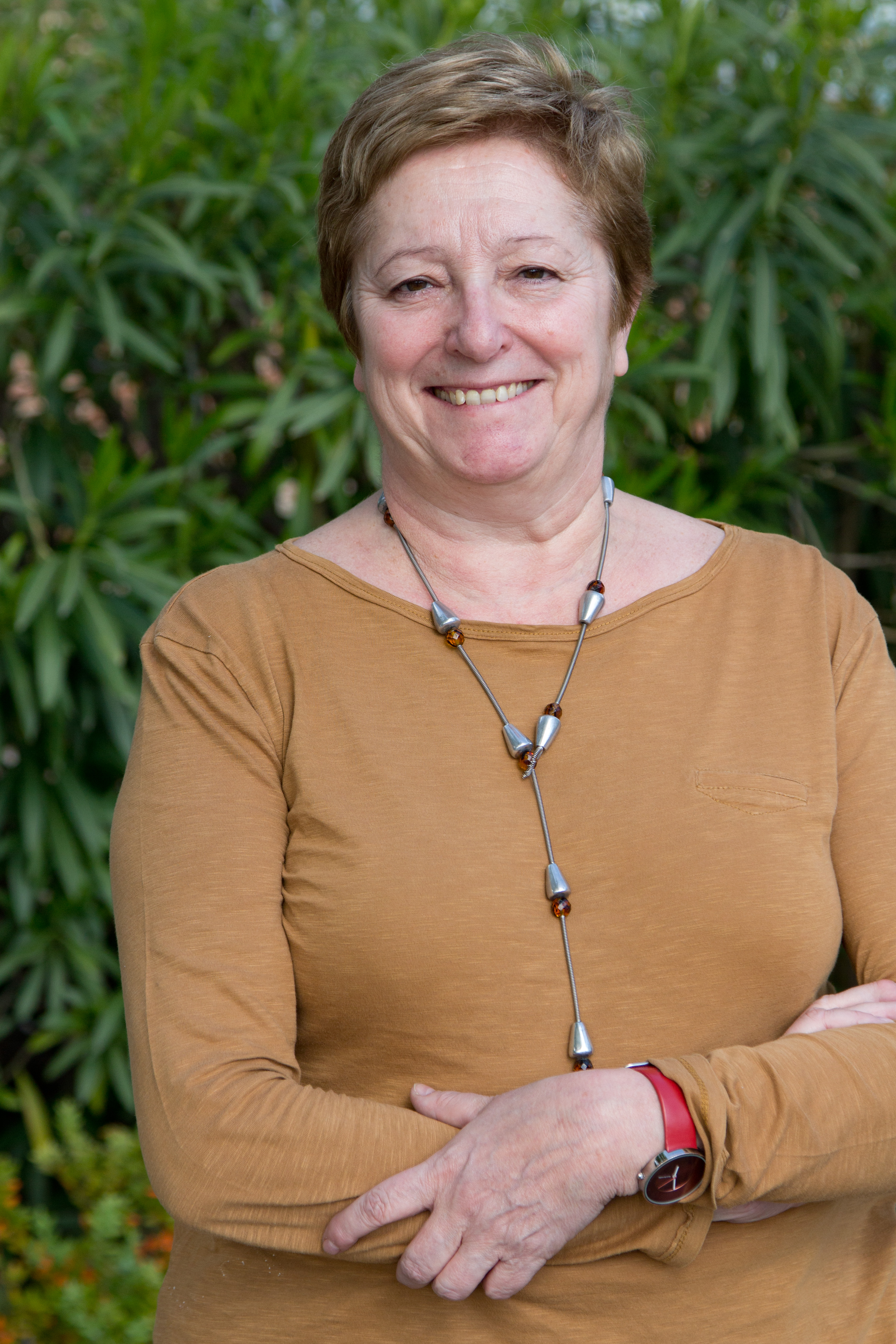 Eulalia Pérez Sedeño, Spanish researcher, at the Wikipedia edit-a-thon Women in science, Residencia de Estudiantes, Madrid, Spain.